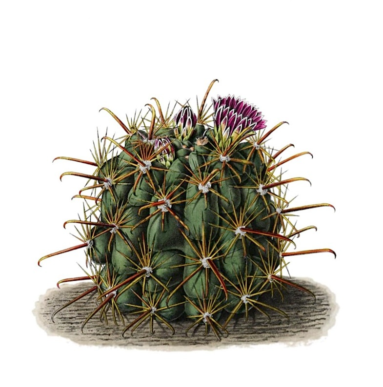 Sclerocactus uncinatus ssp. crassihamatus